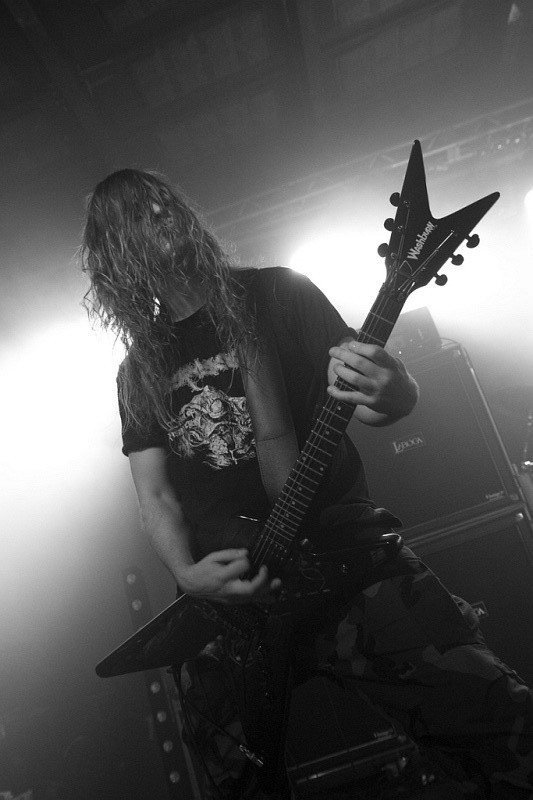 Winterfest 2009, Vader, Warszawa, Progresja, 22.01.2009